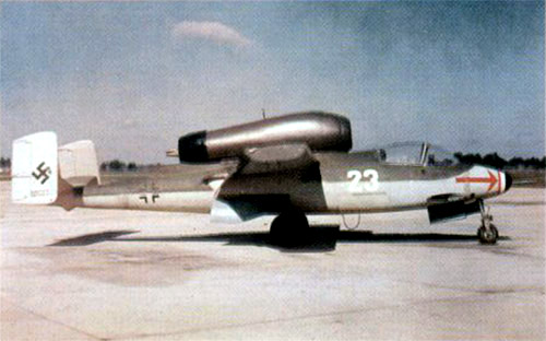 Heinkel He 162 - during the post-war trials in US (US Army Signal Corps); Original production number 120230; at the re-assemby in the U.S. the tail end of 120222 was used for unknown reasons. This aircraft is today shown at the U.S. National Air and Space Museum. Cf. [1] and [2]. Lupo 07:54, 21 Jan 2005 (UTC)